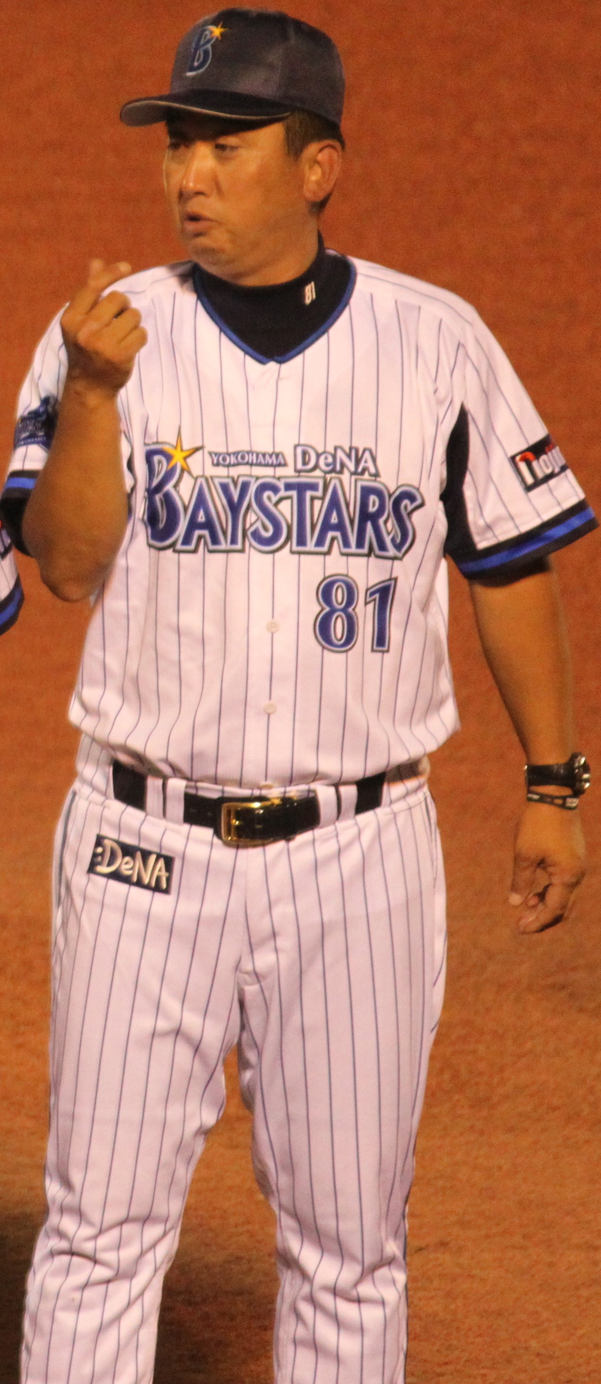 Katsunori Okamoto, coach of the Yokohama DeNA BayStars, at Yokosuka Stadium.